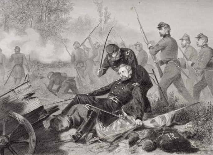 Lithograph - Death of General Isaac Stevens (1818-62) during the attack on Chantilly, Virginia 1862